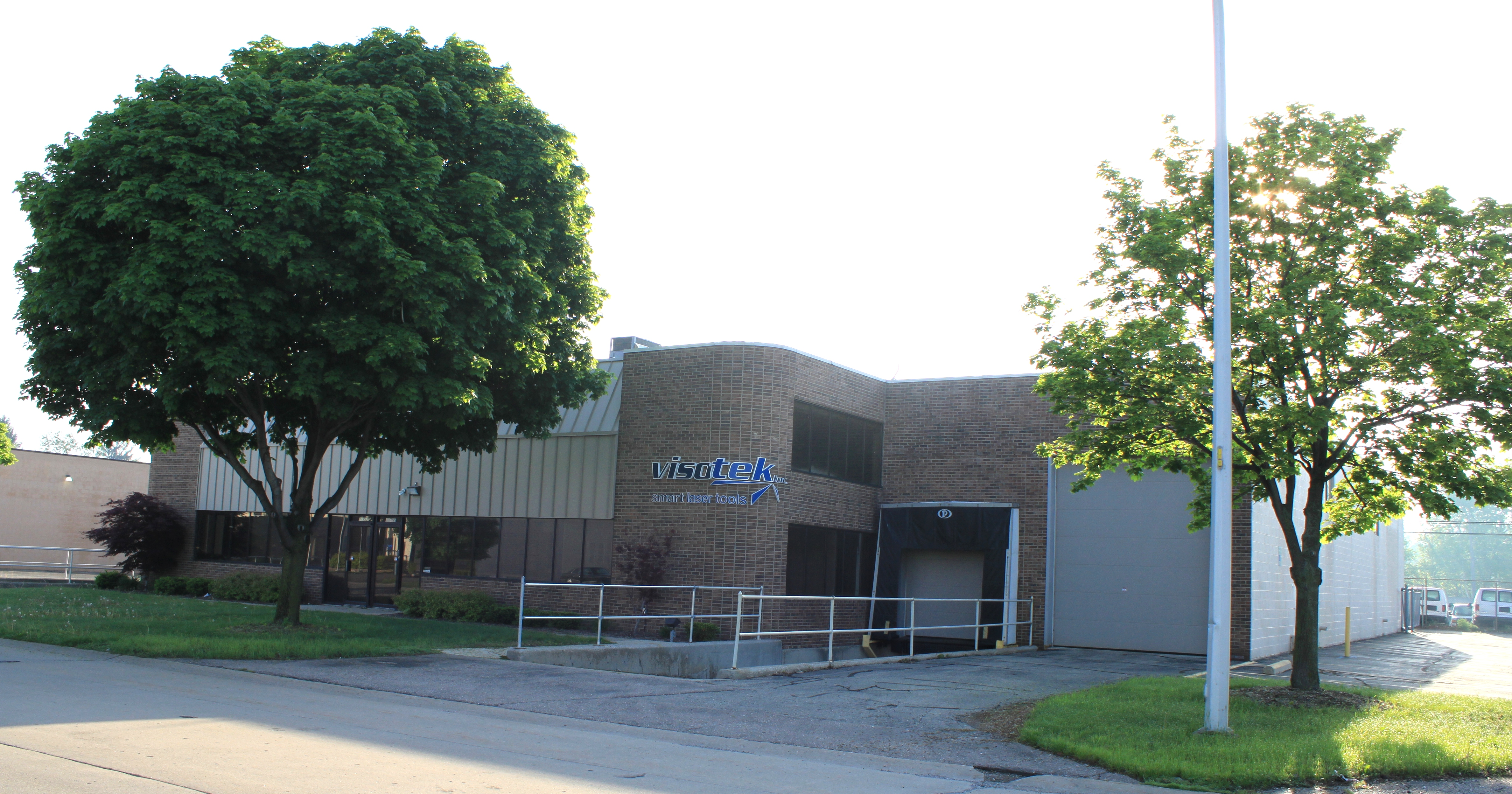 Visotek Inc. headquarters, 11700 Belden Court, Livonia, Michigan